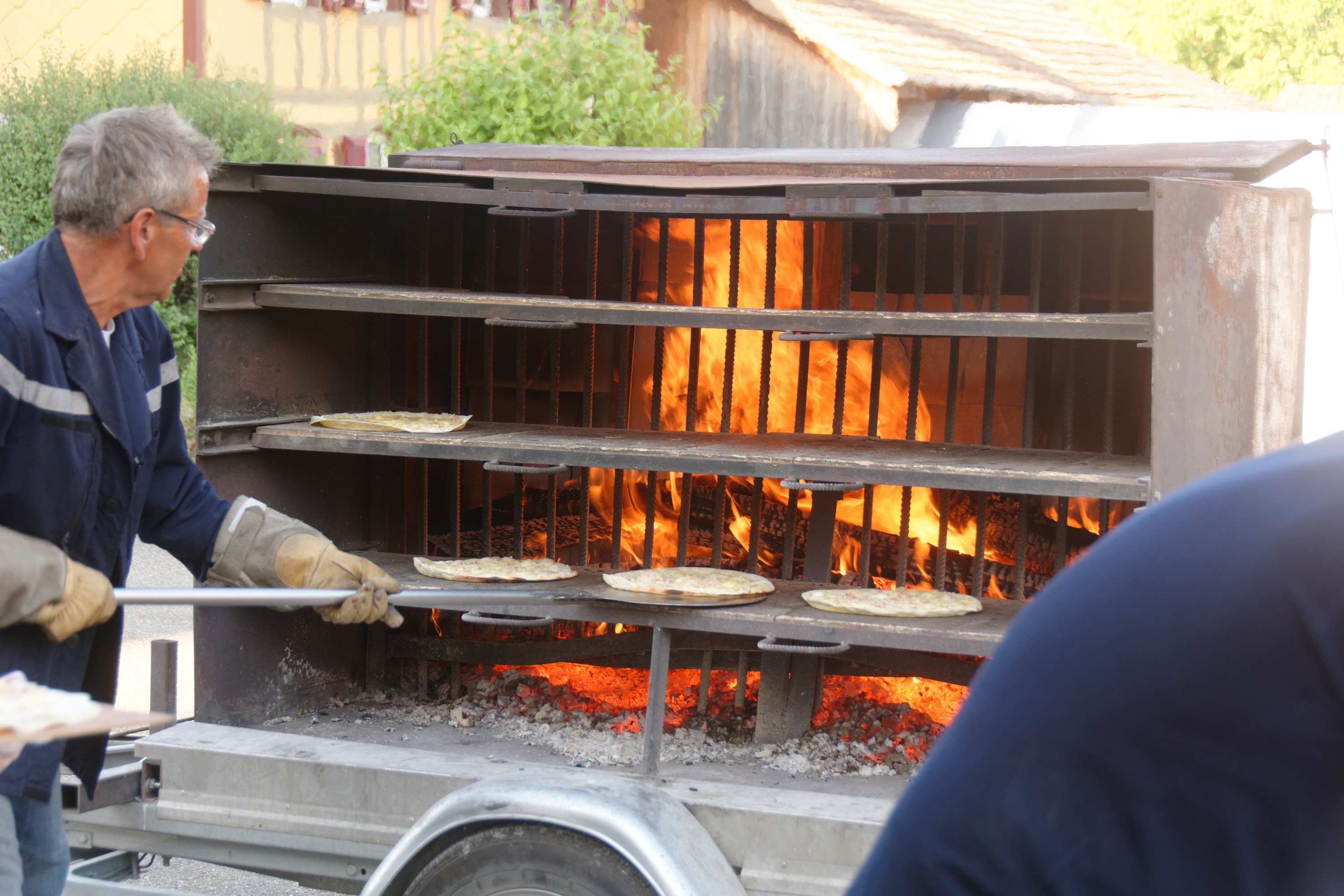 Personality rights warningAlthough this work is freely licensed or in the public domain, the person(s) shown may have rights that legally restrict certain re-uses unless those depicted consent to such uses. In these cases, a model release or other evidence of consent could protect you from infringement claims.